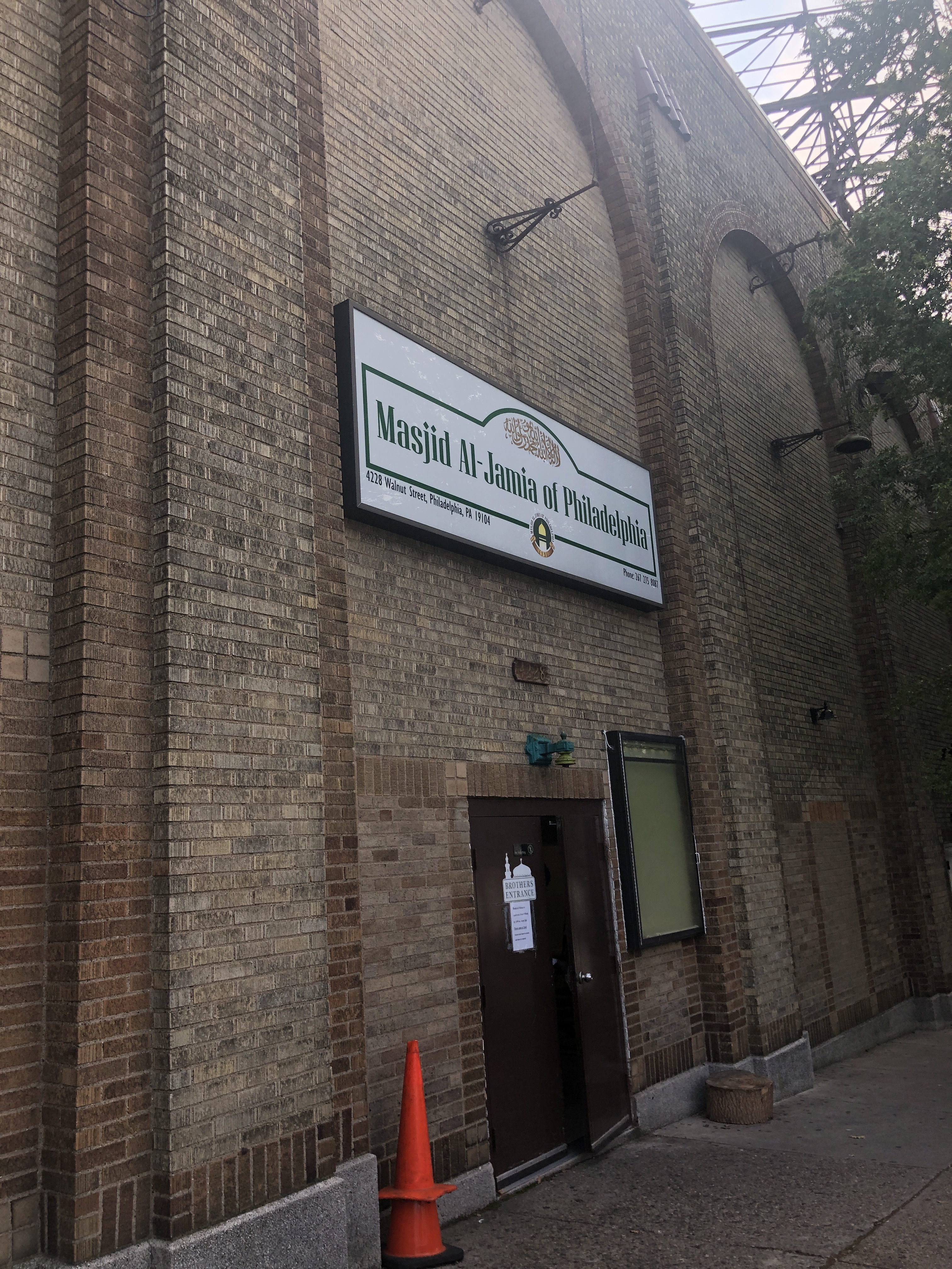 View of Masjid Al-Jamia from Walnut Street sidewalk